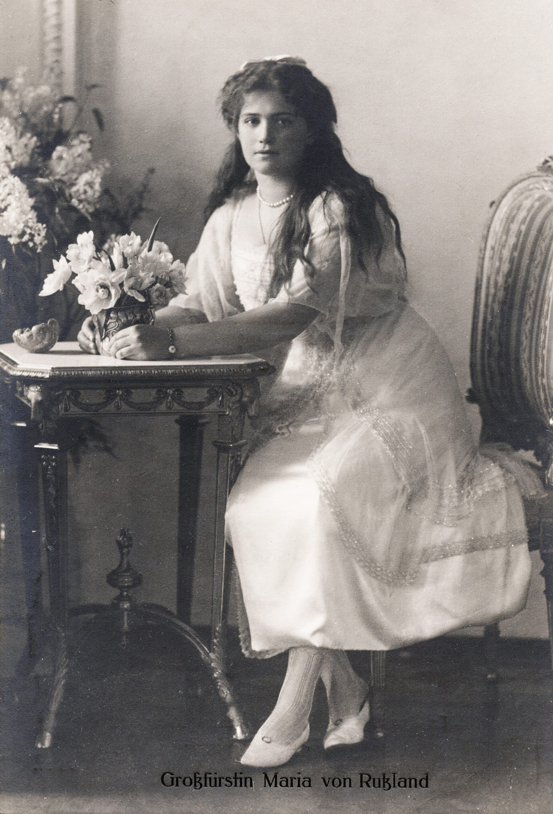 This formal portrait of Grand Duchess Maria Nikolaevna of Russia in 1914 was featured on post cards during World War I. Due to its age I believe it's in the public domain.